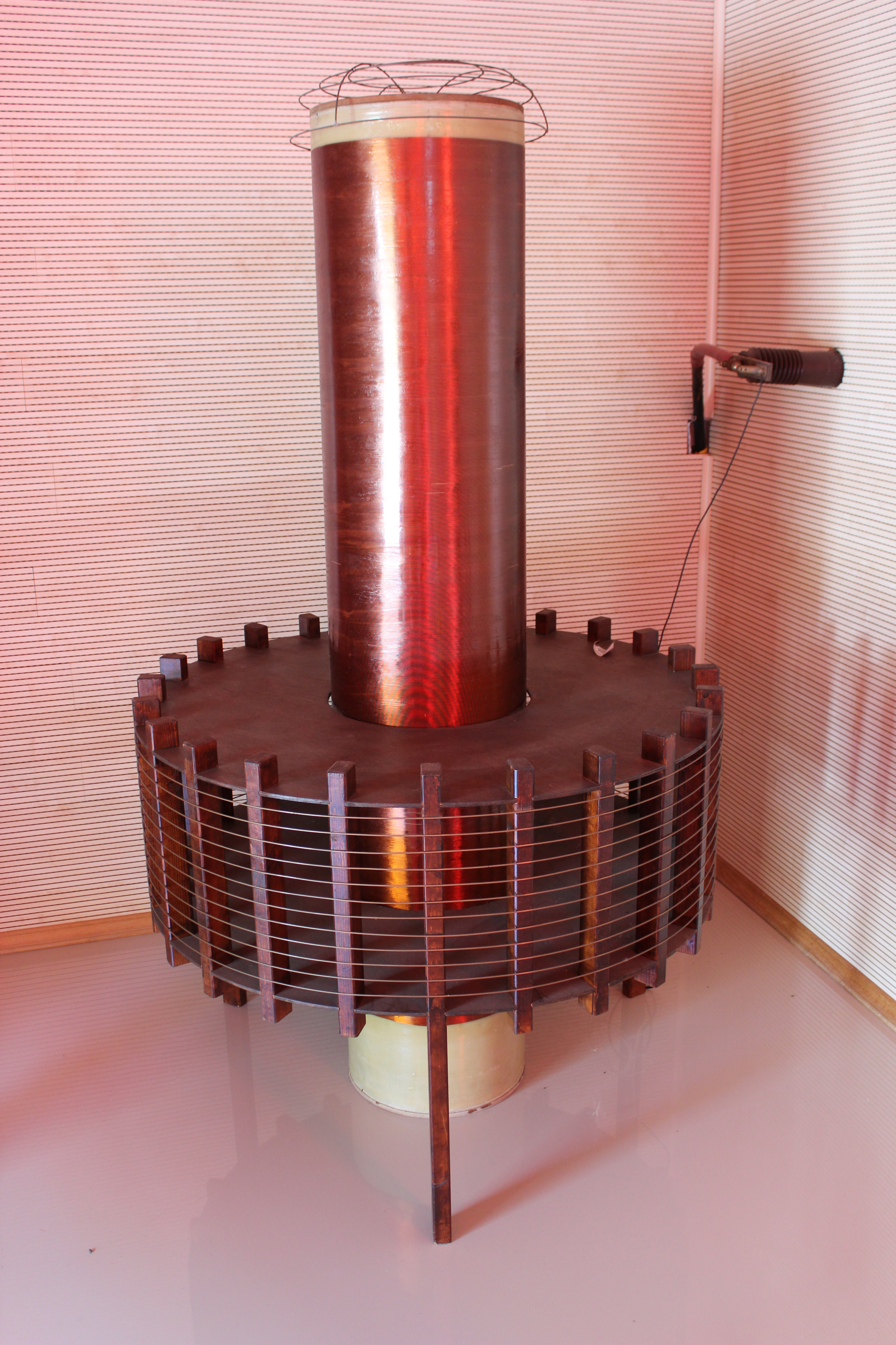 Tesla transformer, also known as Tesla coil. (Nikola Tesla Memorial Center, Smiljan, Croatia).